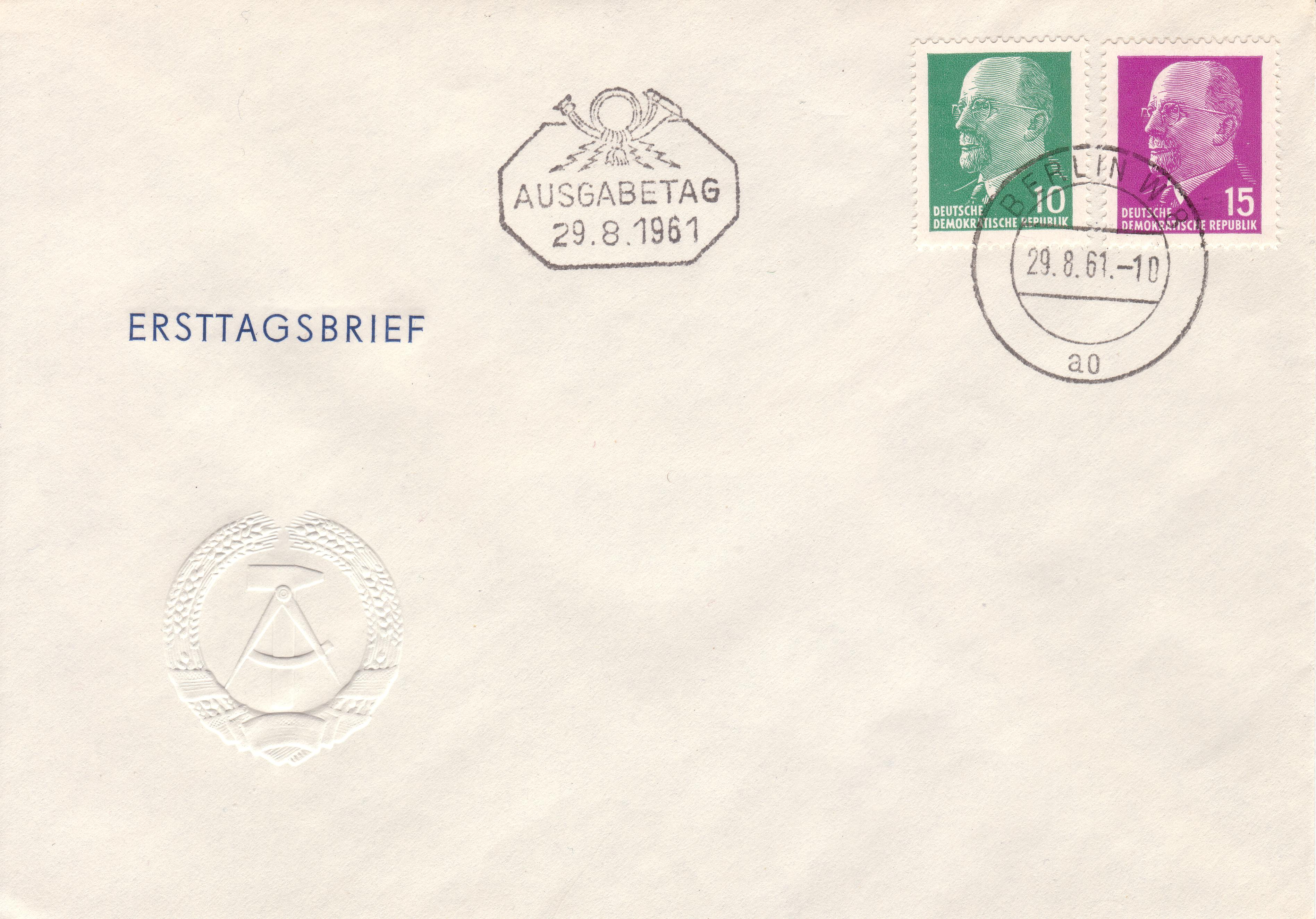 Definitive stamp series "Walter Ulbricht" Graphic designer: NN Ausgabepreis: 10, 15 Pf First Day of Issue / Erstausgabetag: 29. August 1961 Michel-Katalog-Nr: DDR-FDC 846, 847